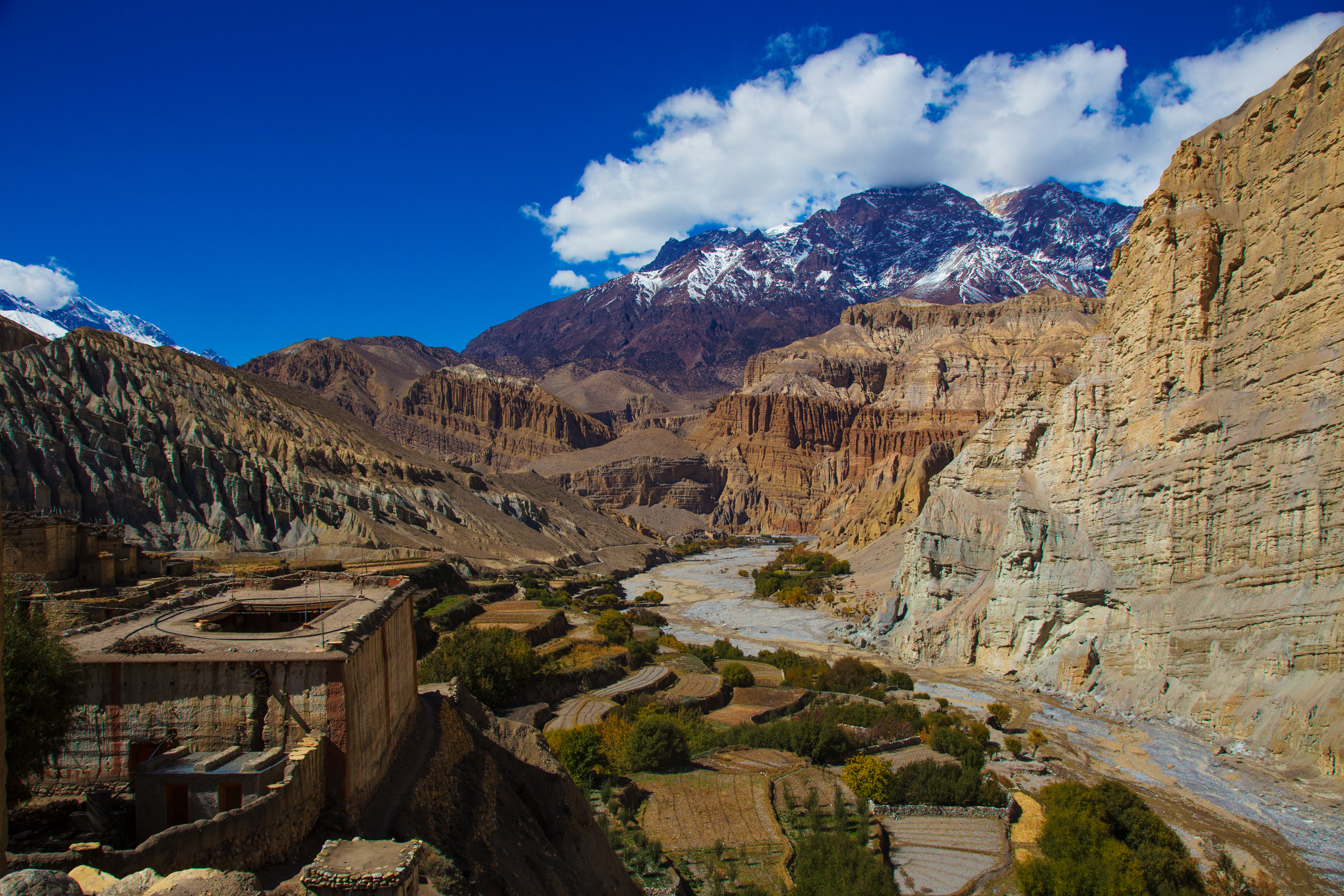 Tetang terraced fields,Lower Mustang, Nepal